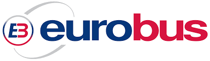 Logo Logo of slovak transport company Eurobus based in Košice, Slovakia